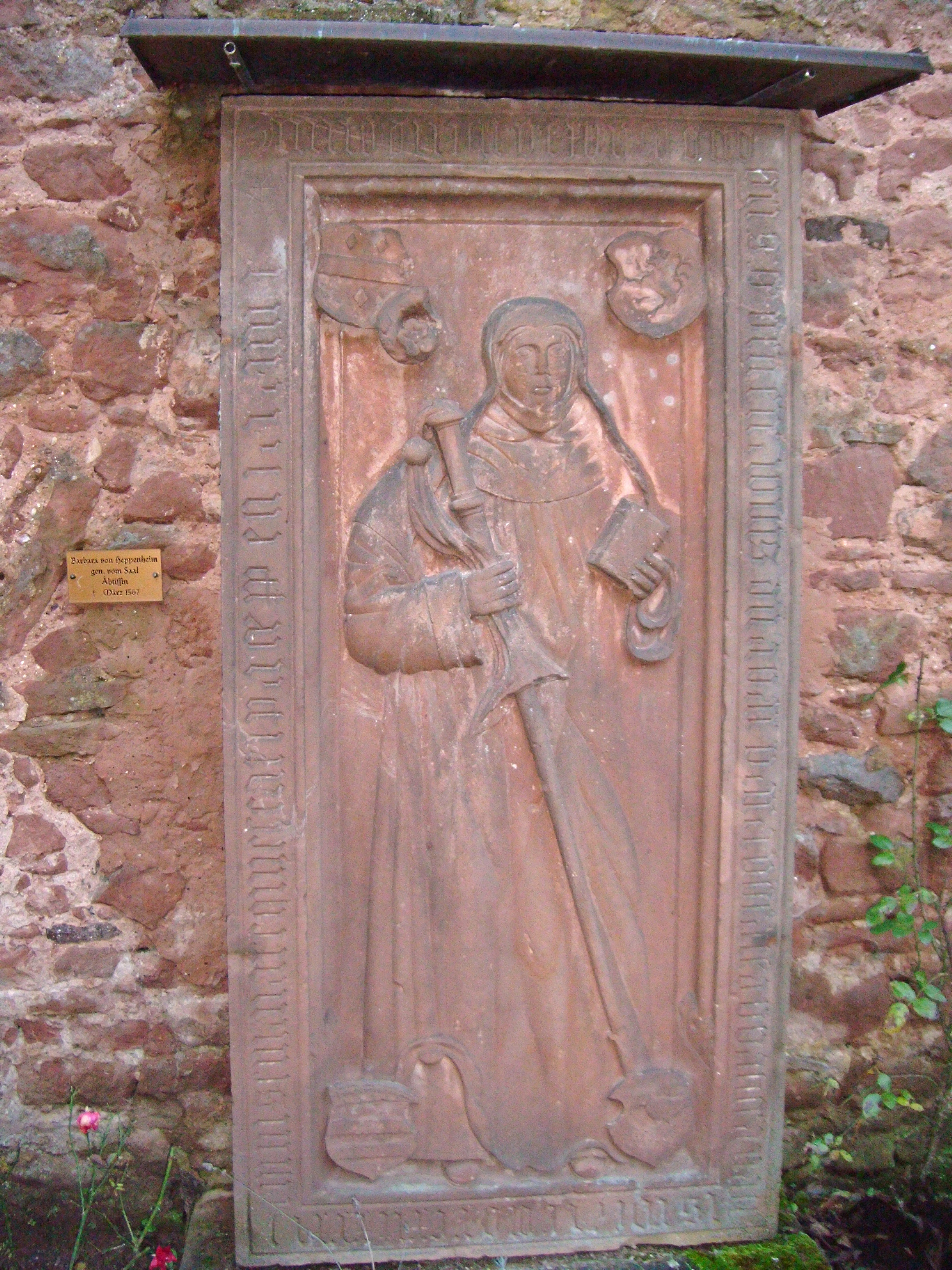 Grabplatte der Äbtissin Barbara von Heppenheim genannt vom Saal, (+ 1567), Kirchenruine Rosenthal